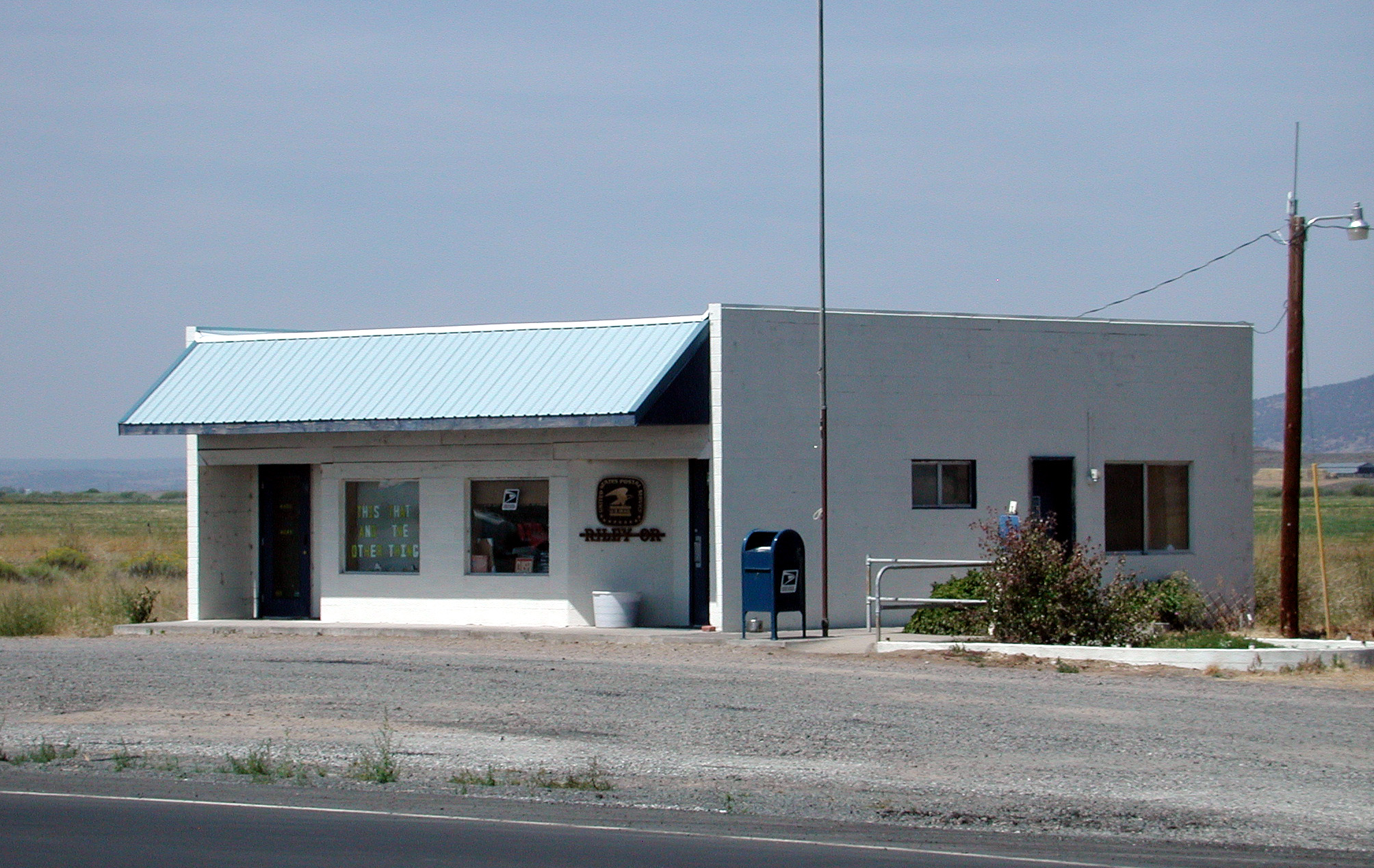 Post office in Riley, Oregon, United States, on the north side of U.S. Route 20. View is to the northwest.